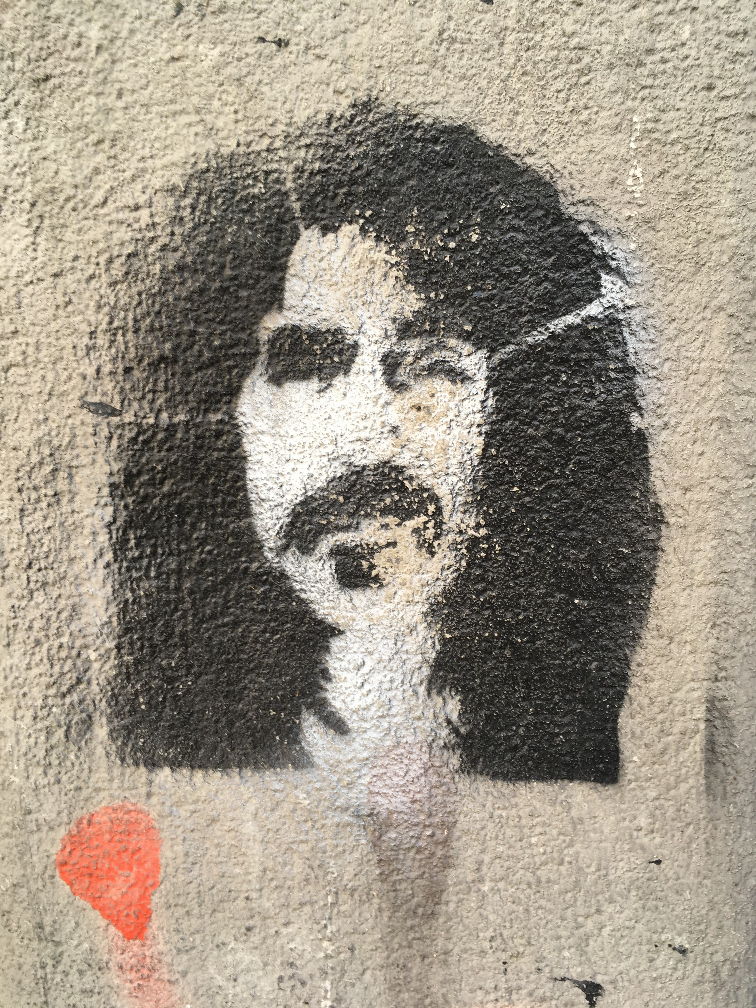 Street graffiti depicting Frank Zappa in Belgrade, near St. Michael's Cathedral, Belgrade